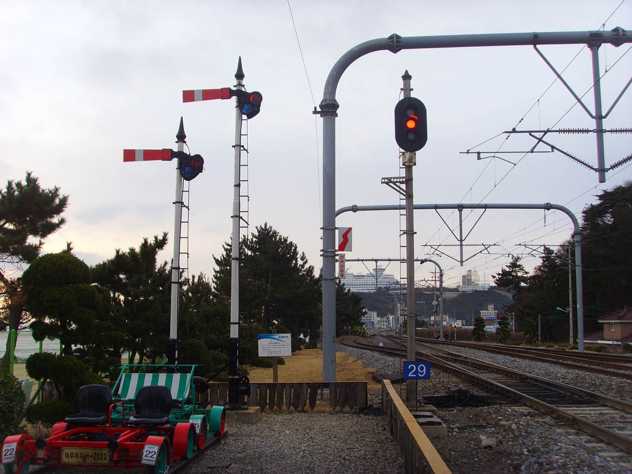 Yeongdong Line Jeongdongjin station semaphore